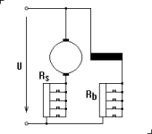 Electric motors